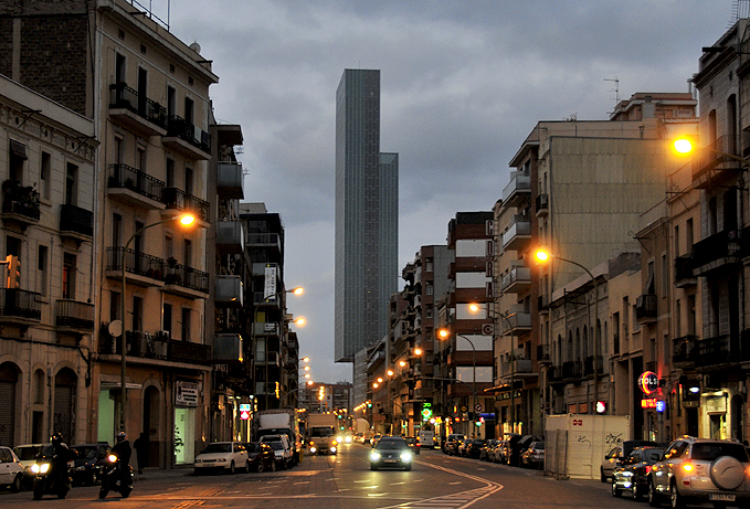 View of Carrer de Pere IV with the ME Barcelona hotel in the background